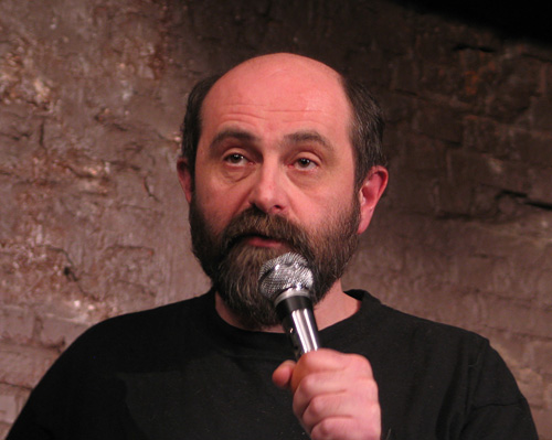 Russian philosopher Vadim Rudnev